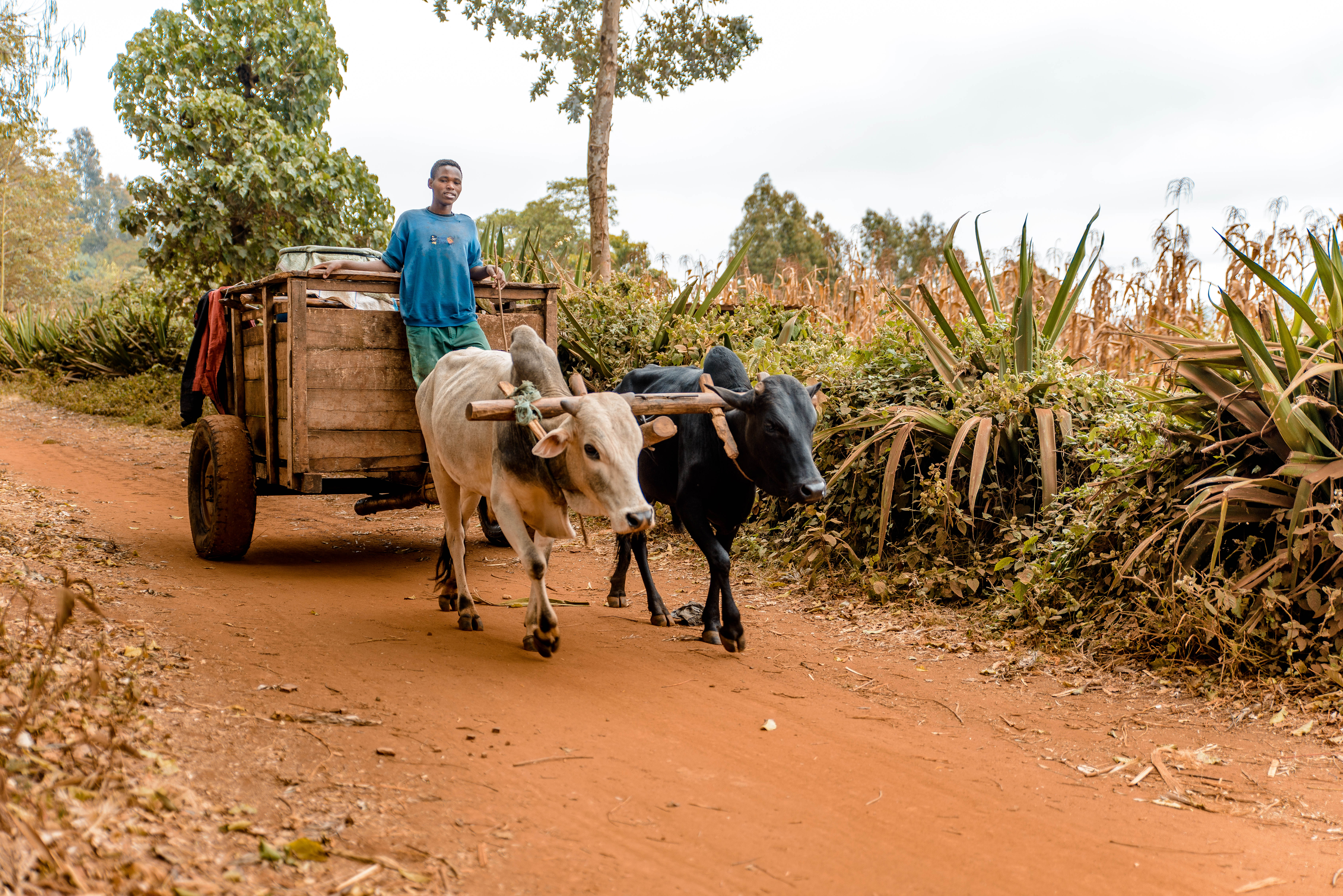 This is an image with the theme "Africa on the Move or Transport" from: Tanzania